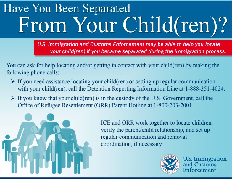 A flyer circulated by the Department of Homeland Security in 2018 offering assistance to parents separated from their children while in custody. The flyer followed a "zero tolerance" policy that prosecuted all people crossing the border, requiring their accompanying minor children to be held separately.